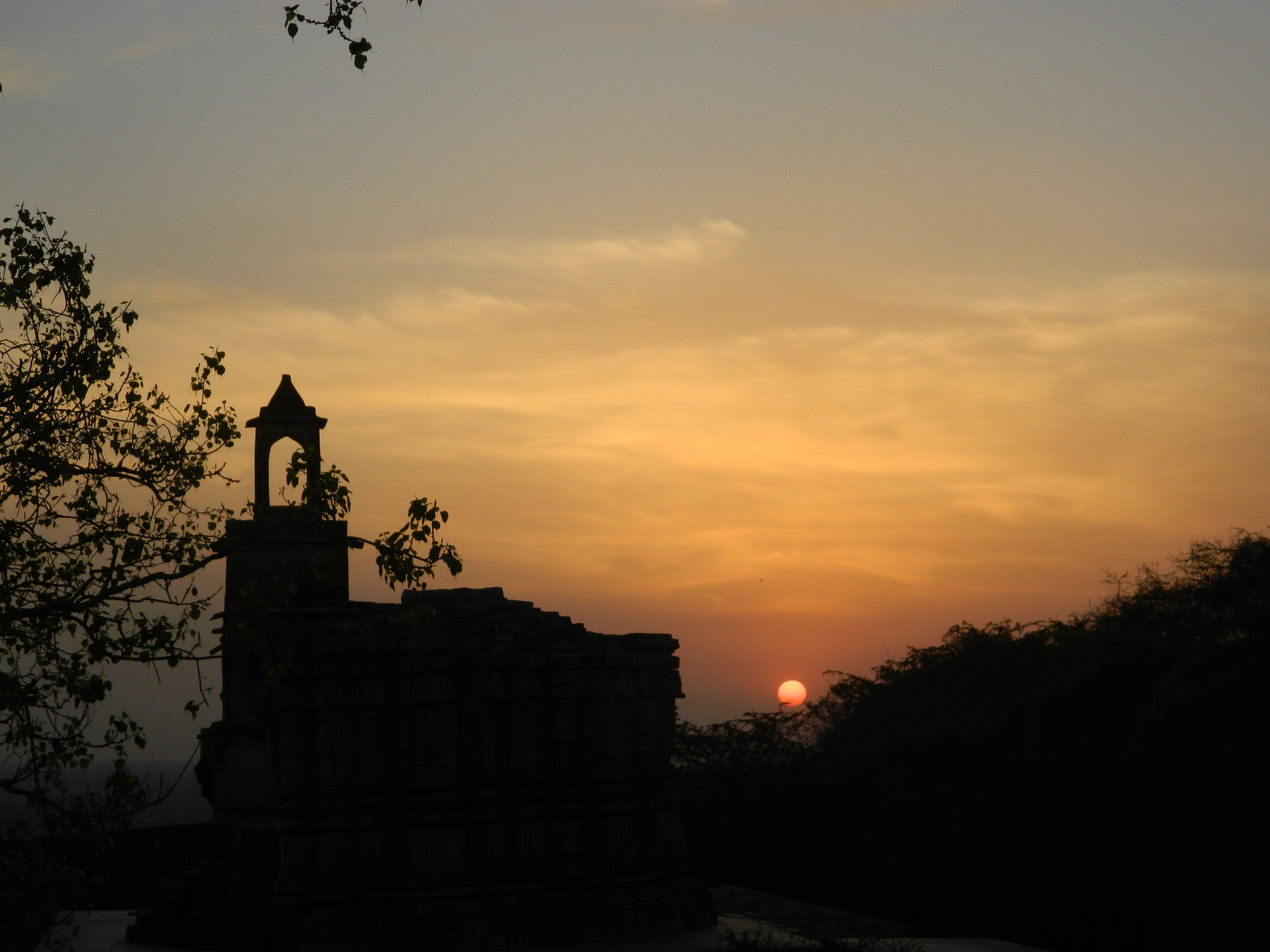 This photo has been taken in the country: India